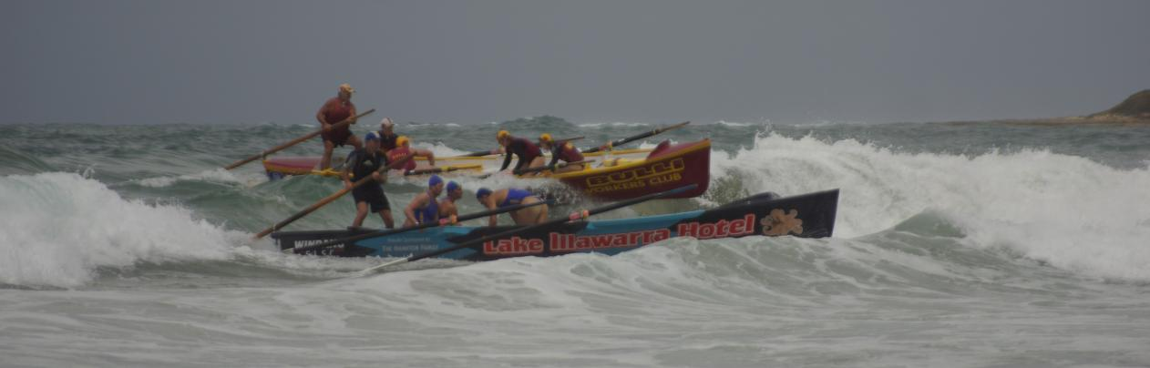 Snapshot at the surf boat competition in the Illawarra Branch surf carnival showing the boats of Bulli and Windang Surf Life Saving Clubs.